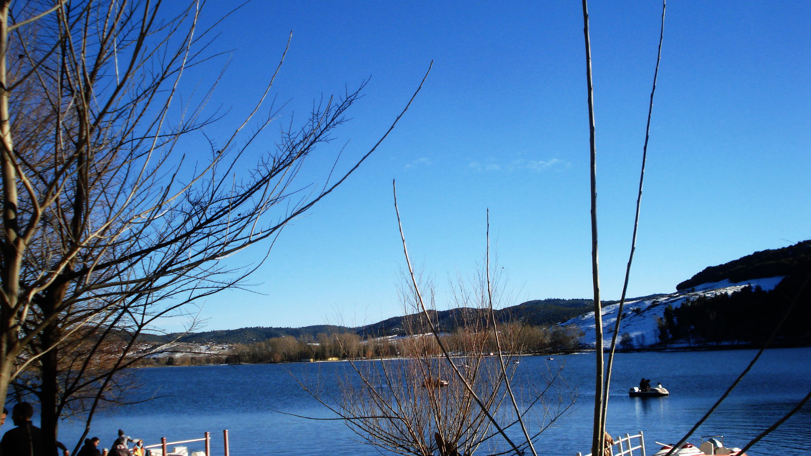 Dait Aoua, Morocco.